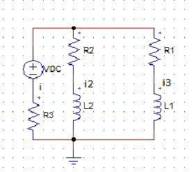 Circuit RL with two mesh